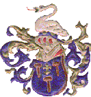 Familiewapen Kolff Coat of Arms